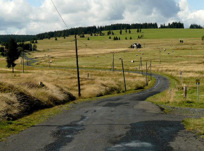 This photograph was taken within the scope of the second year of the 'Czech Municipalities Photographs' grant.